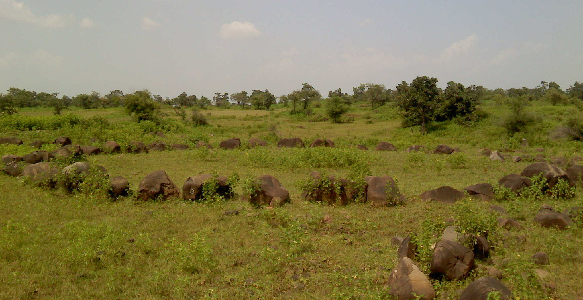 Junapani is situated some 11 km from Nagpur on Maharashtra State Highway 248. Stone circles here are a prehistoric megalithic structure. Shown here in one of such circle.